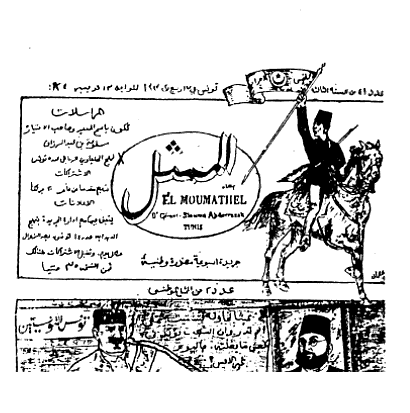 Al Moumathil front/title page, number 41 bis of November 13, 1924